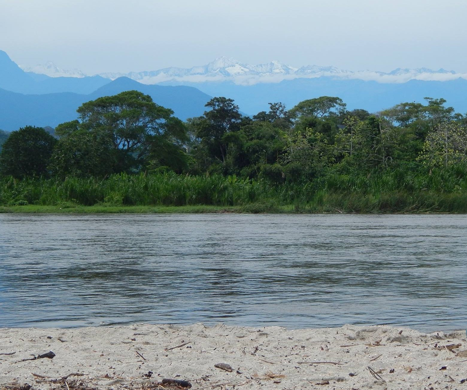 This is an image of the Biosphere Reserve: Sierra Nevada de Santa Marta